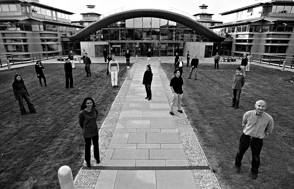 Group photo of the members of the Centre for Quantum Computation in 2003.